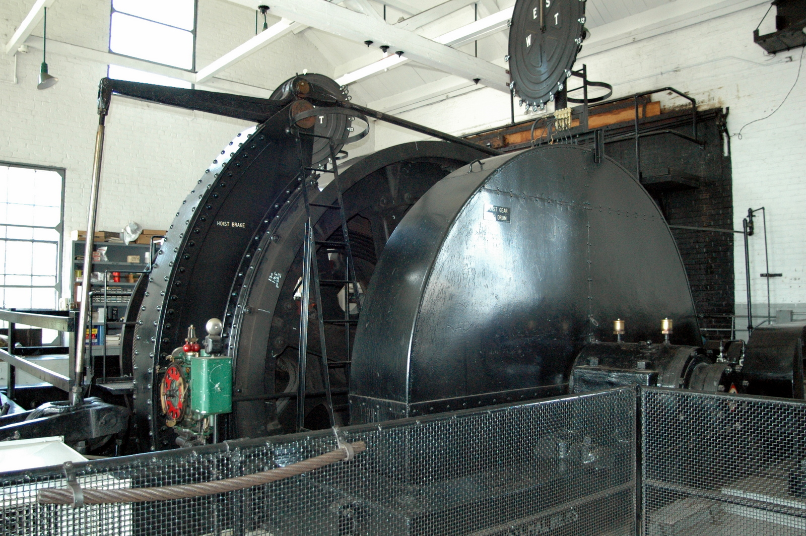 An interior shot of the Engine House at the Soudan Mine, including the Hoist Drum